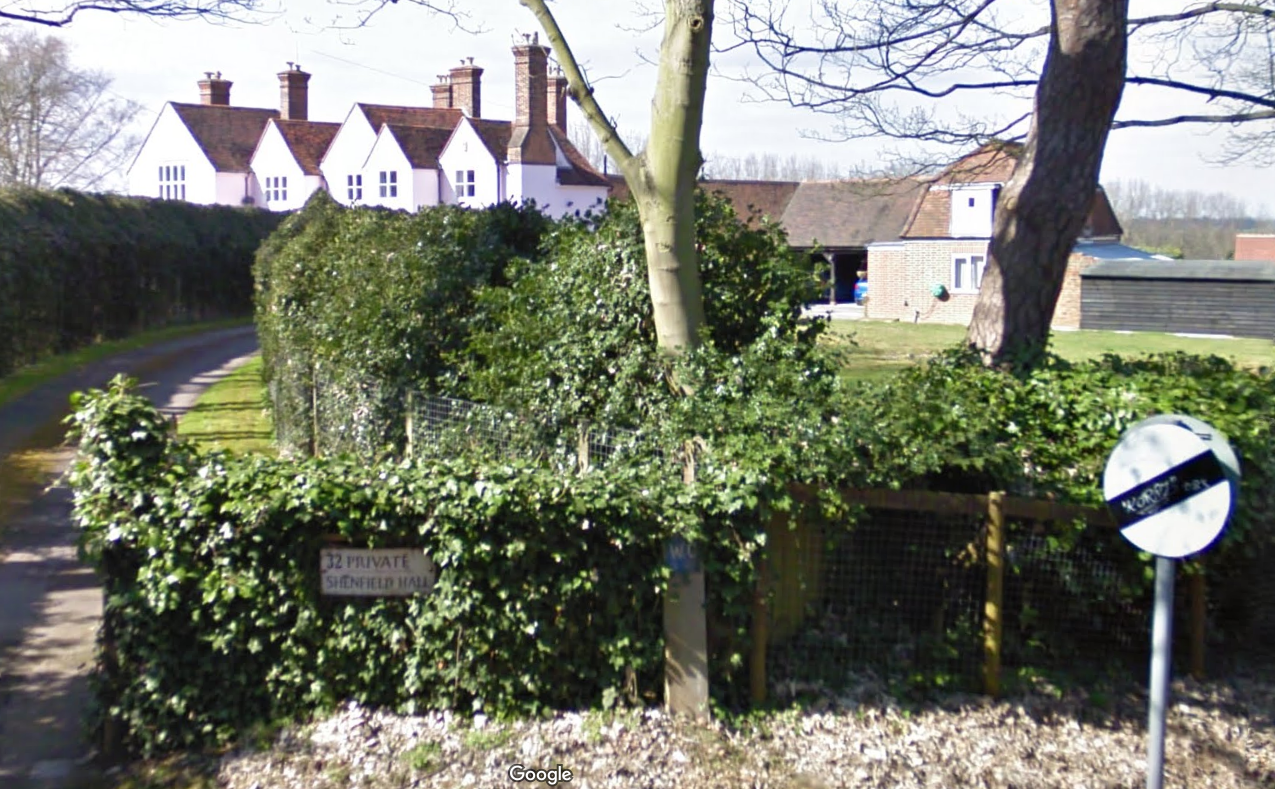 The entrance to Shenfield Hall